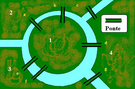 Seven Bridges of Königsberg